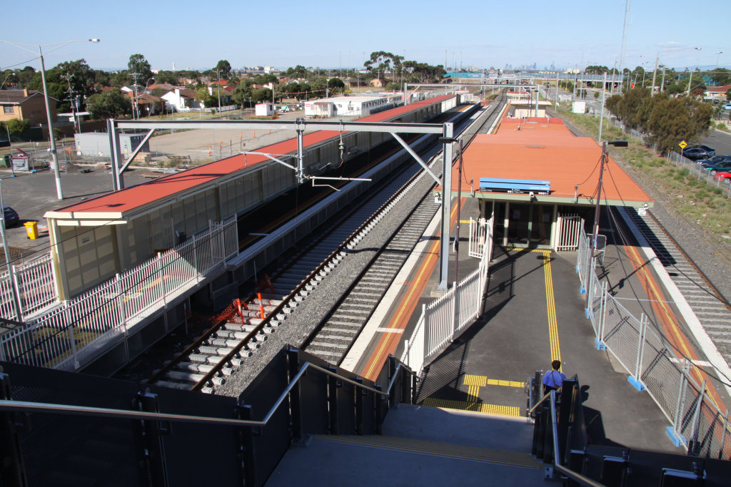 Island platform at Laverton railway station, Melbourne in 2010 - was platform 1/2 until the upgrade works, now platform 2/3.